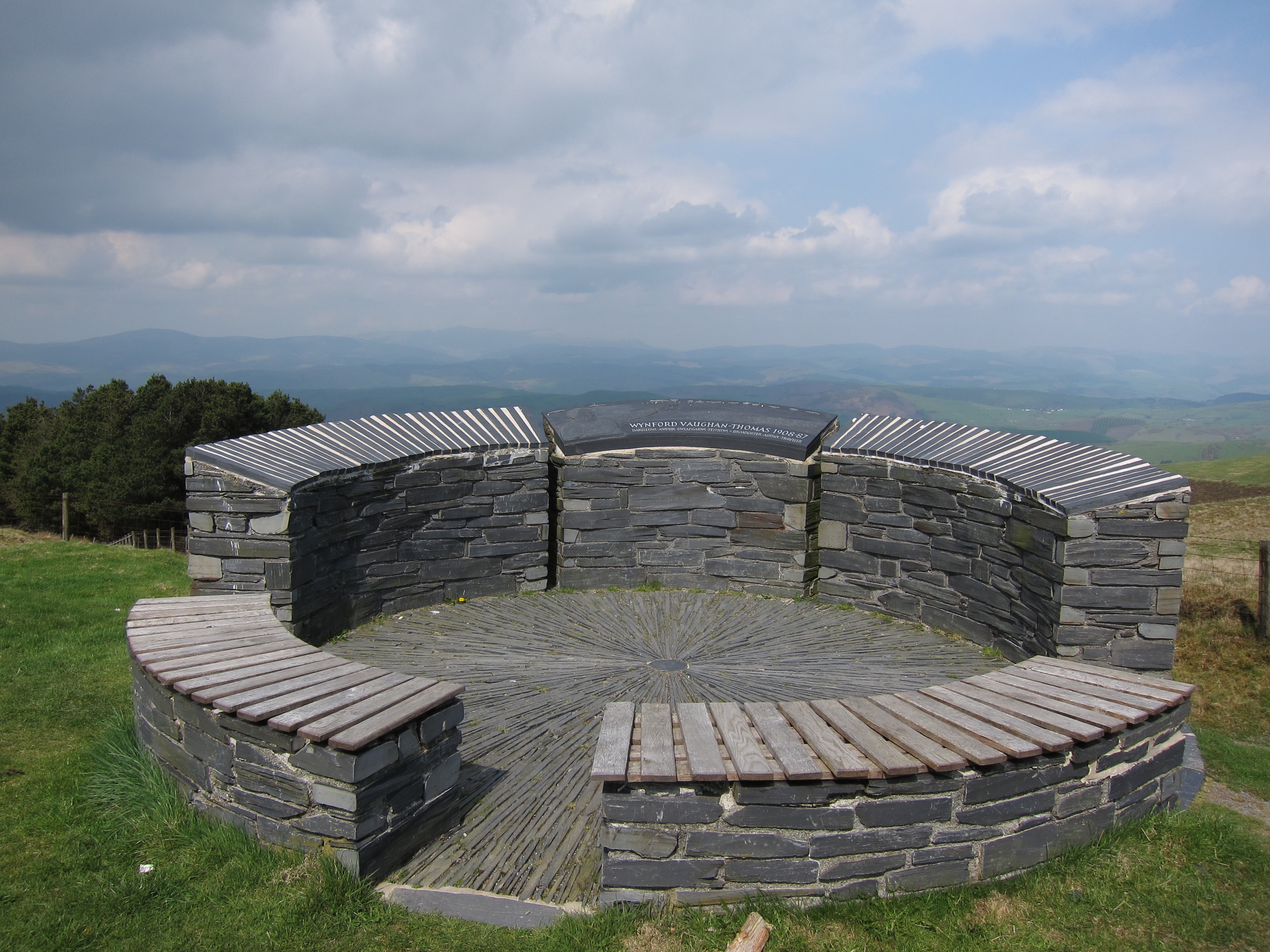 I can see why this was his favourite view in Wales.